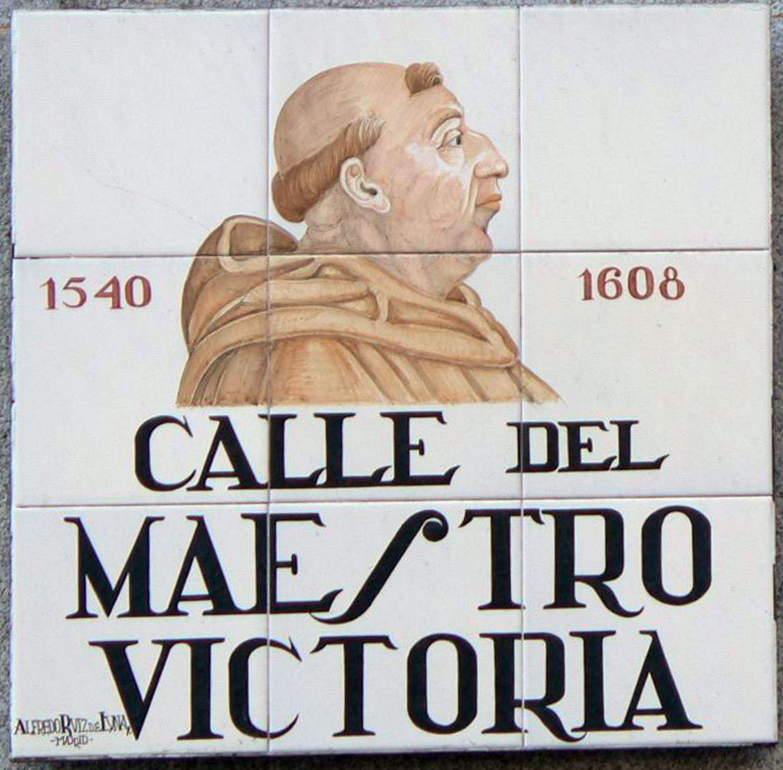 Sign of Calle del Maestro Victoria (street, Centro district) in Madrid (Spain).